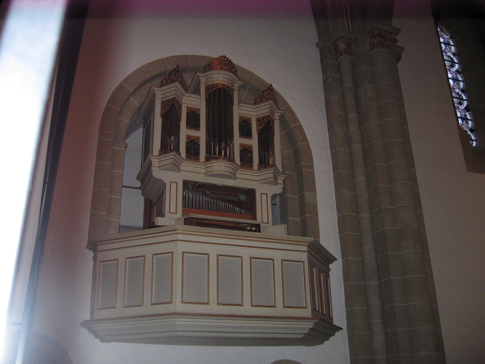 Interior and organ of Herford minster in Herford, District of Herford, North Rhine-Westphalia, Germany.